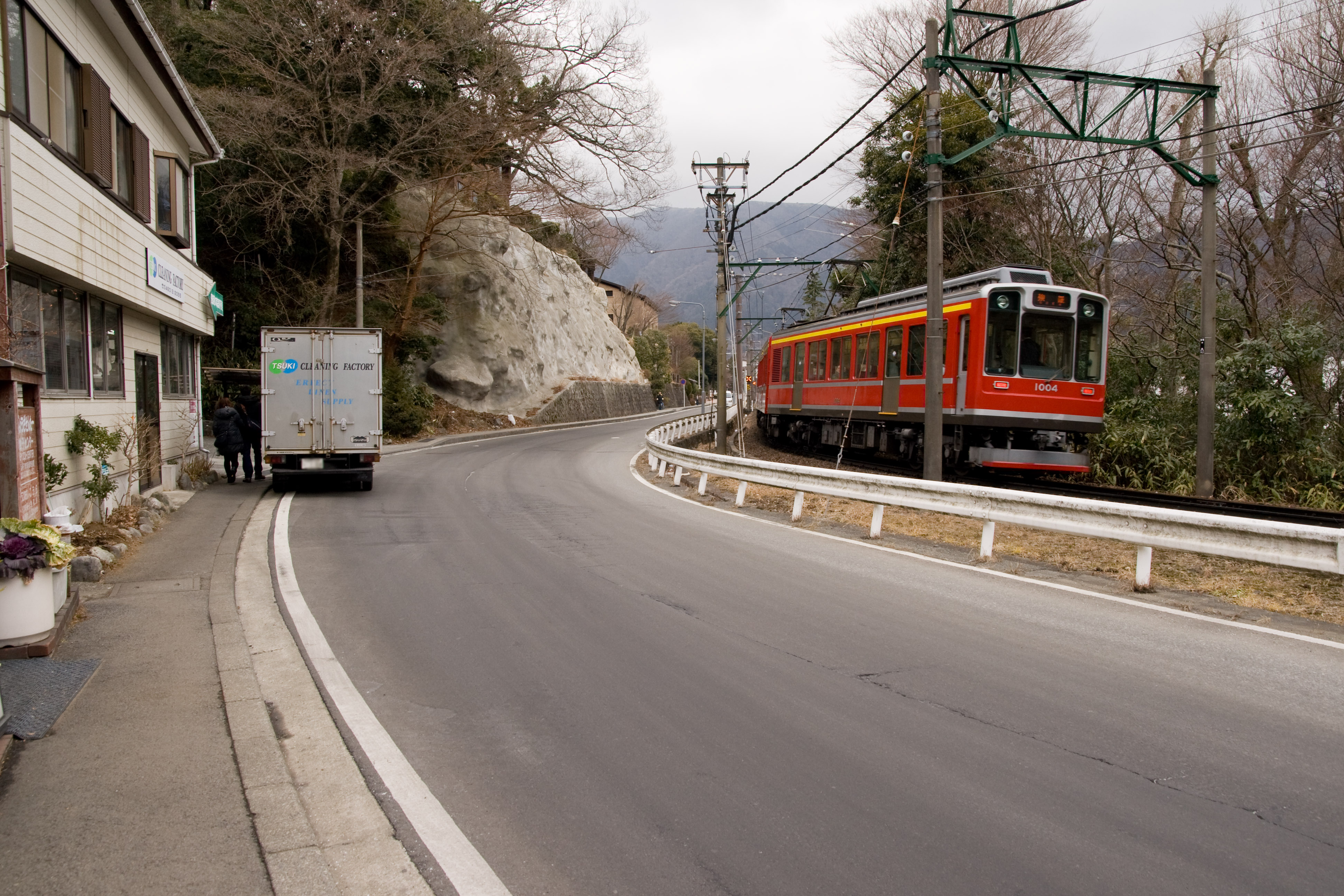 The Kanagawa Prefectural Road Route 723 in Hakone Town, between Ninotaira and Gora